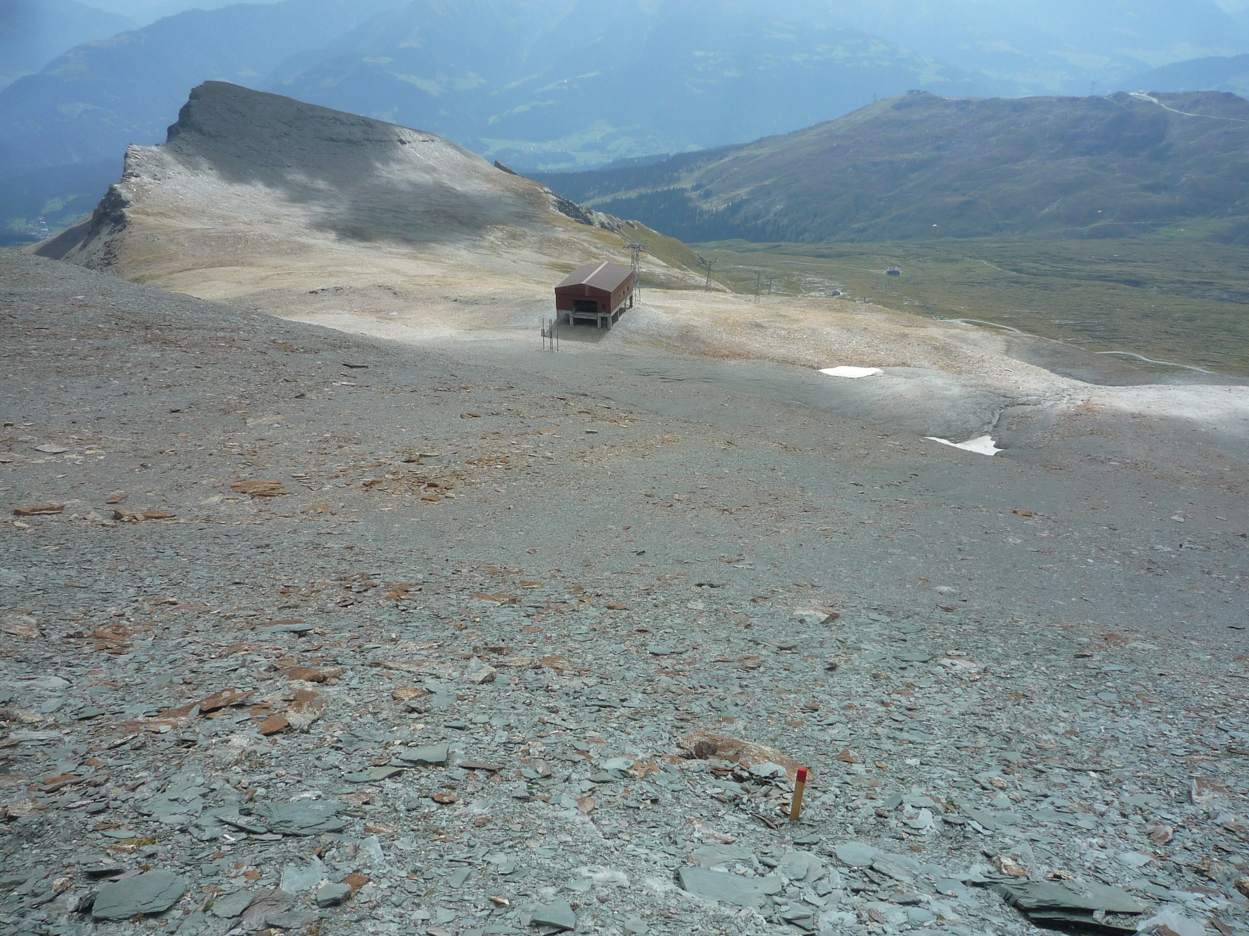 La Siala was the highest station of the Flims ski area and will be topped by the new station in the foreground.